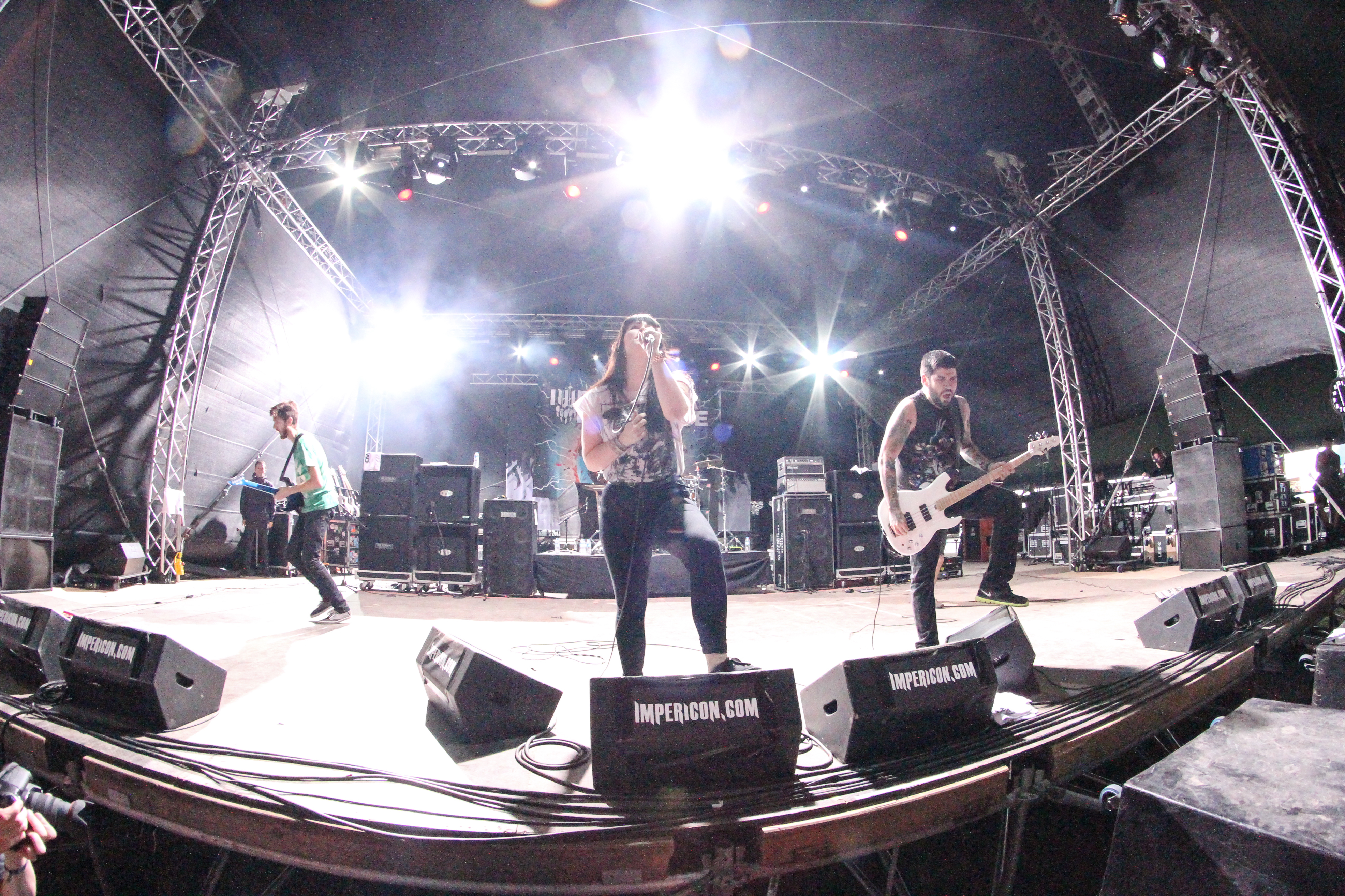 Festivalsommer This photo was created with the support of donations to Wikimedia Deutschland in the context of the CPB project "Festival Summer".